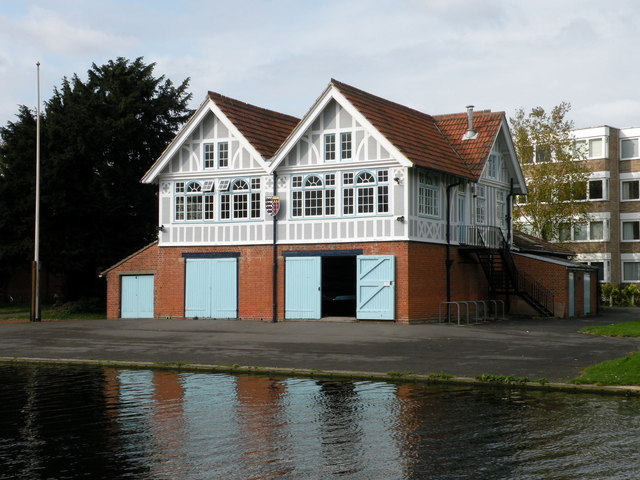 Pembroke College boathouse The first one upstream from the Cutter Ferry footbridge